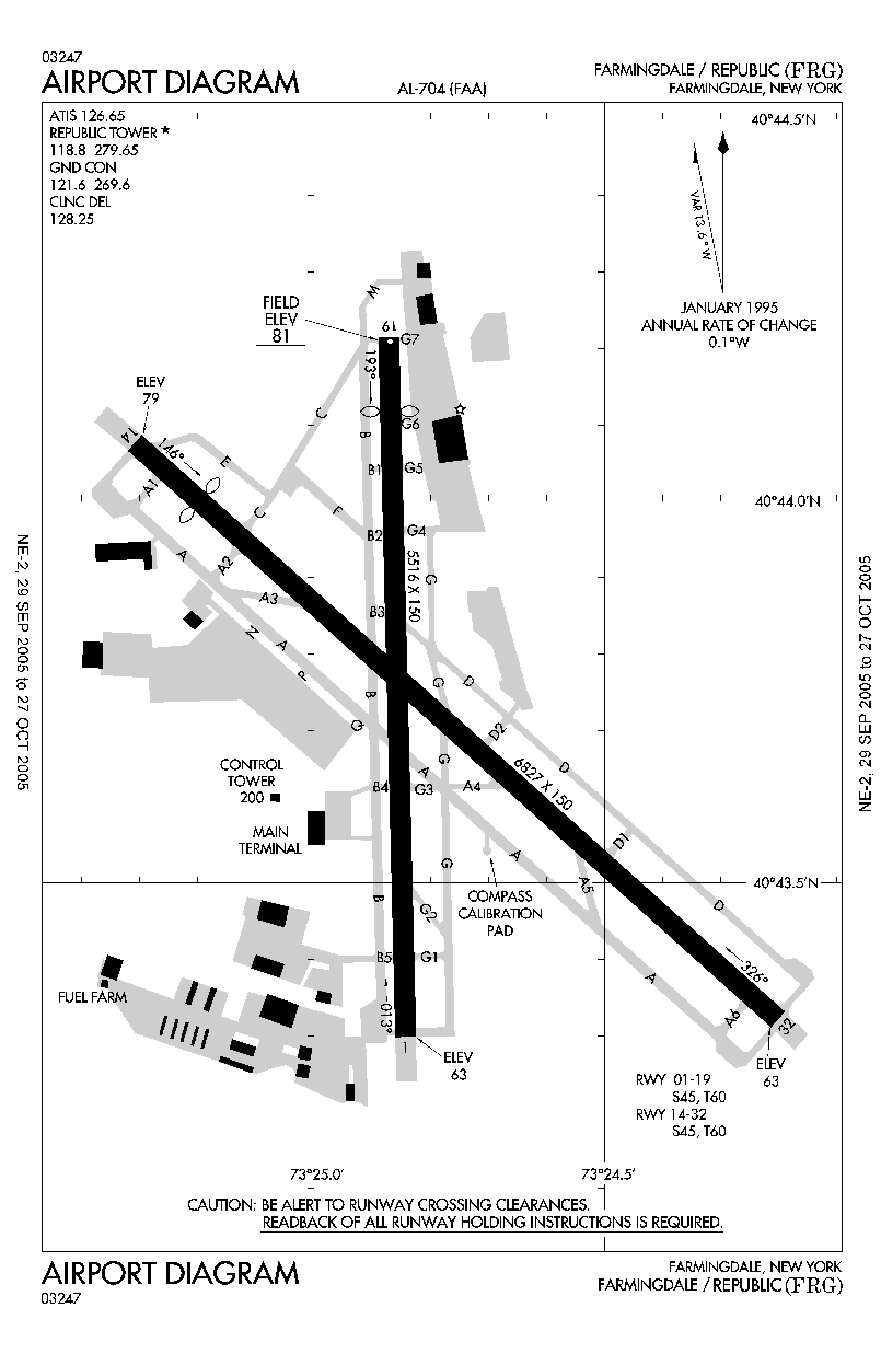 FAA airport diagram for Republic Airport (FRG) in Farmingdale, New York, United States.